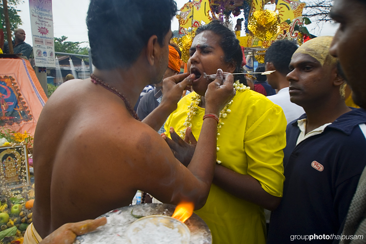 Cheek Piercing at Thaipusam